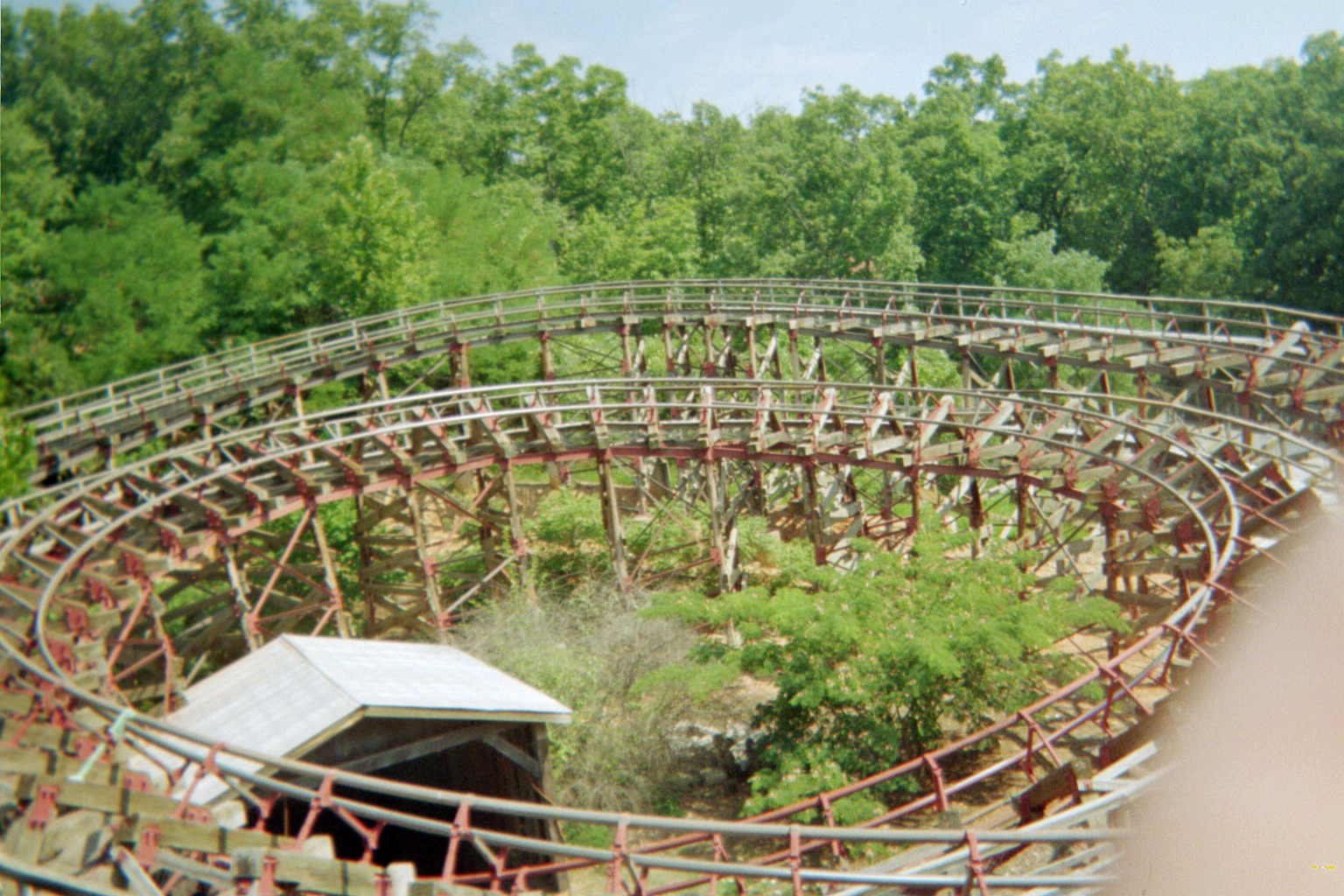 Another shot of the double hairpin